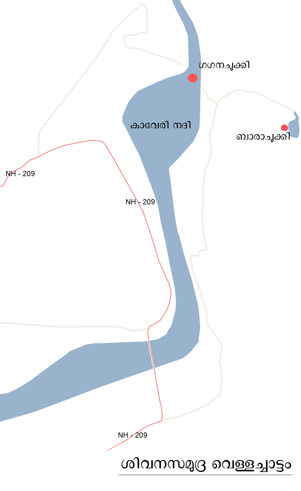 Sivanasamudra Road Sketch in Malayalam